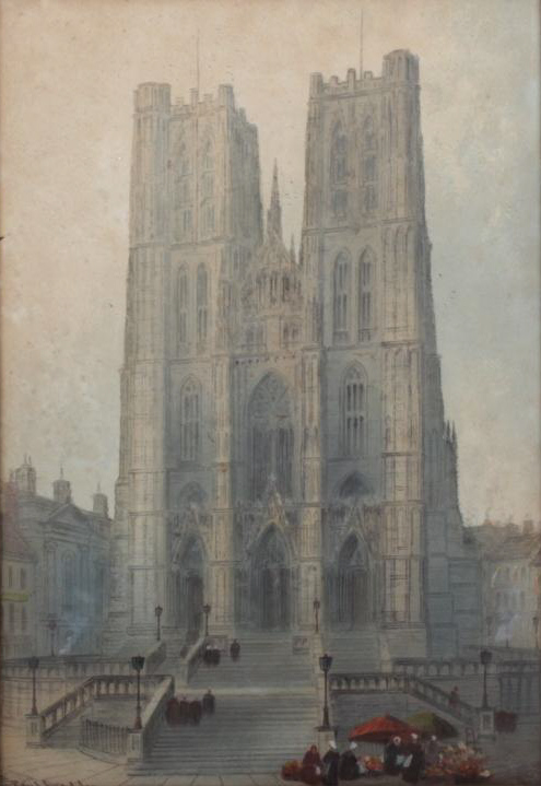 St. Michael and Gudula Cathedral, Brussels, signed at the lower left corner